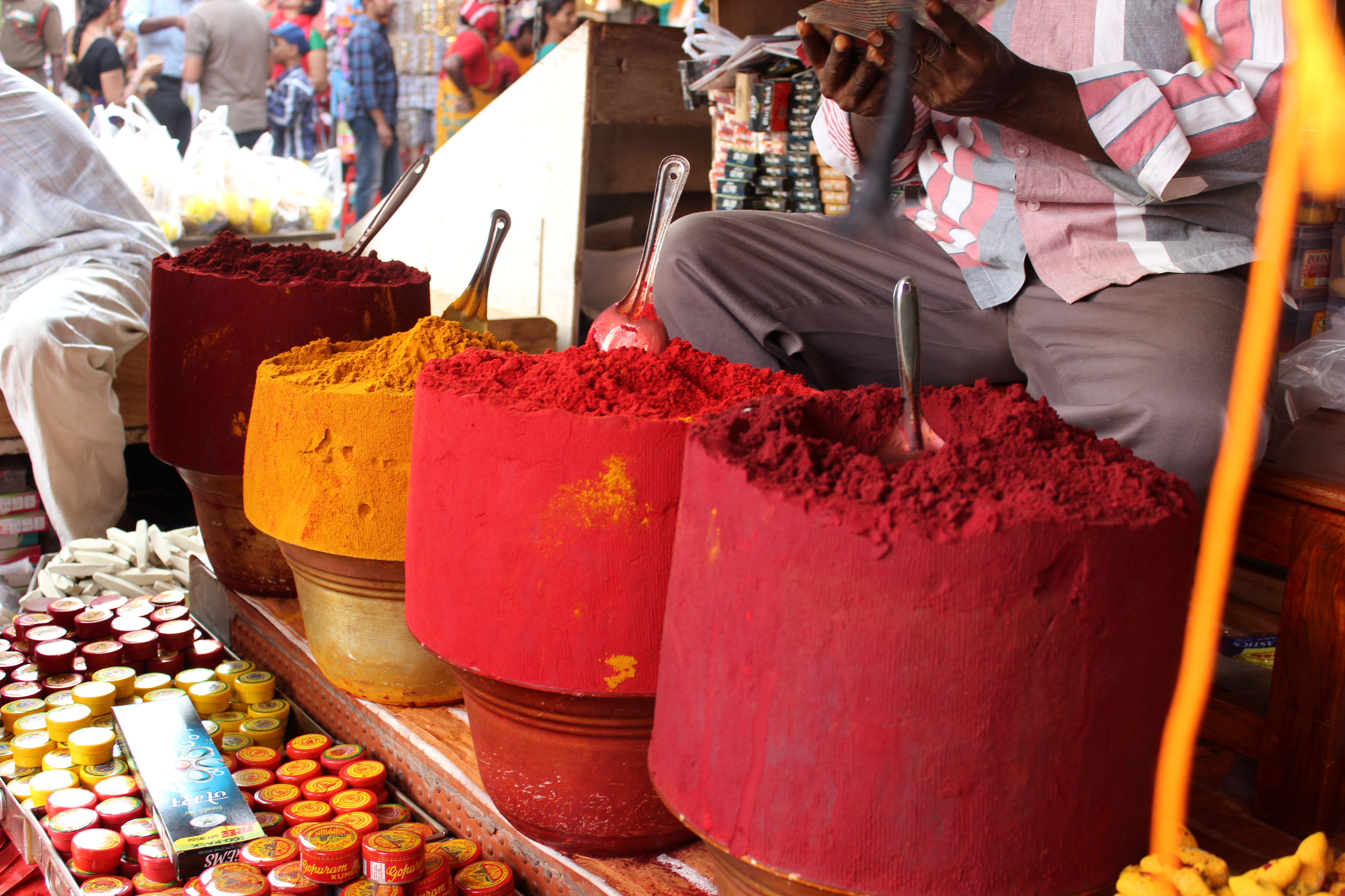 Thiruchanur